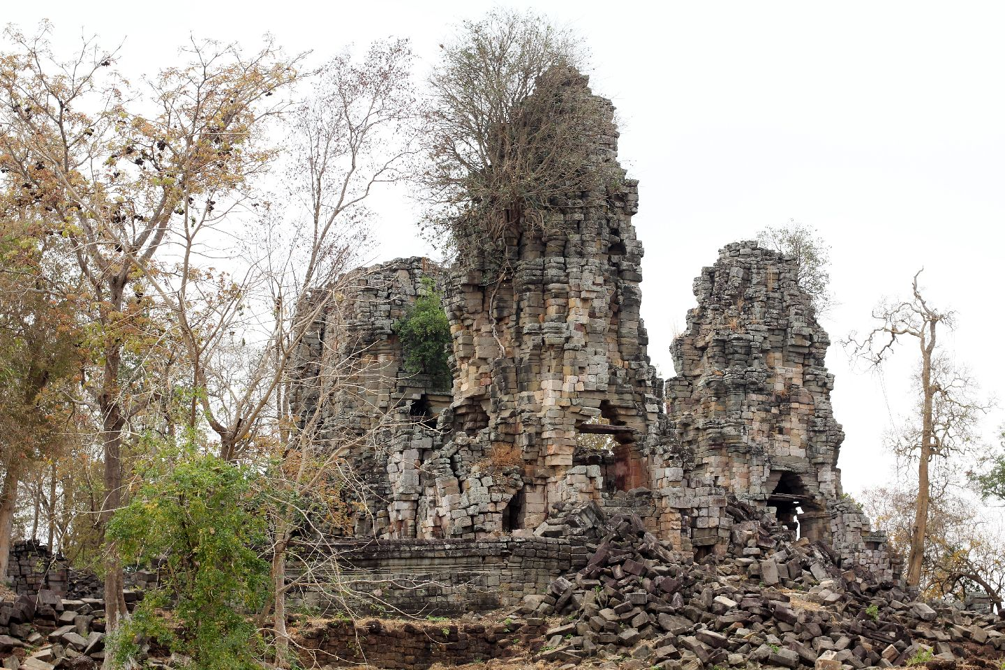 Prasat Banteay Torp, temple of Banteay Chhmar, Cambodia